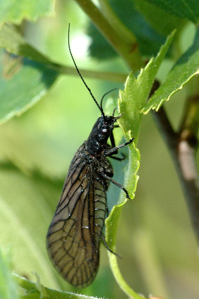 Picture taken in Commanster, Belgian High Ardennes . Species: Sialis lutaria